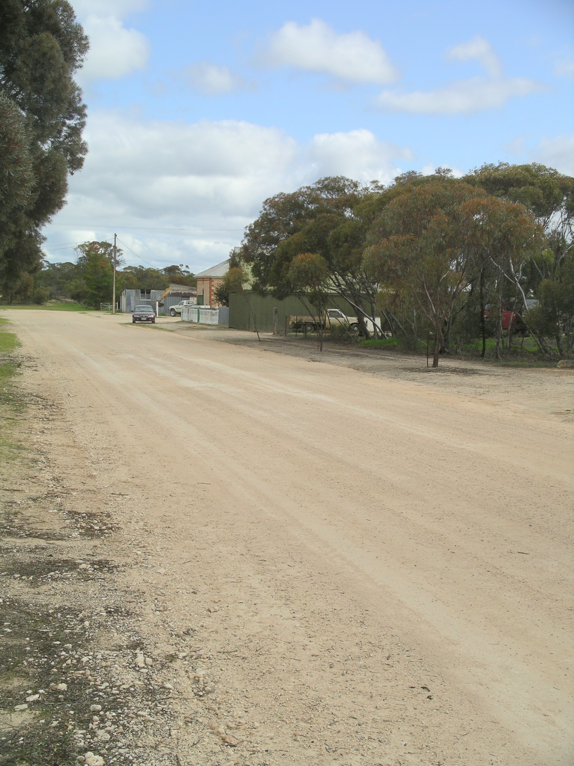 Main street of Parrakie